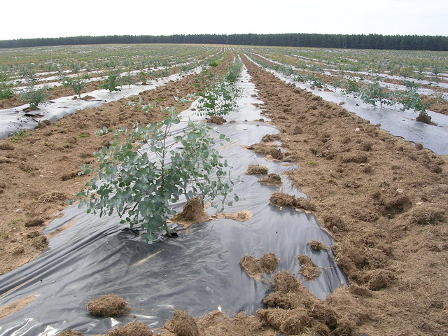 Daneshill Energy Forest The UK's largest plantation of Eucalypts, planted in 2005 by Nottinghamshire County Council. The forest will provide a locally produced, carbon-neutral renewable energy resource for use by the County Council in its latest woodfired boilers in schools and other public buildings.